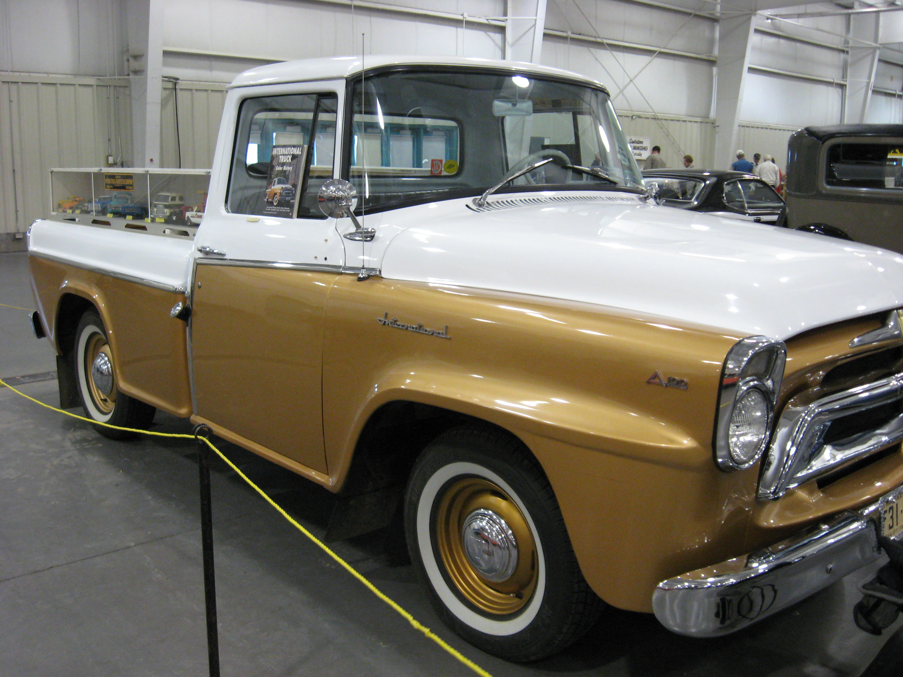 1956 international A-100 pickup from local gun/car show